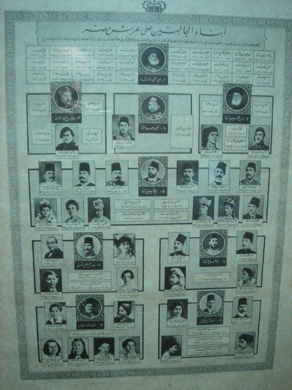 Family tree showing rulers of the Muhammad Ali Dynasty with their respective children. The family tree is displayed in the historic elevator of the El-Salamlek Palace Hotel in Alexandria.